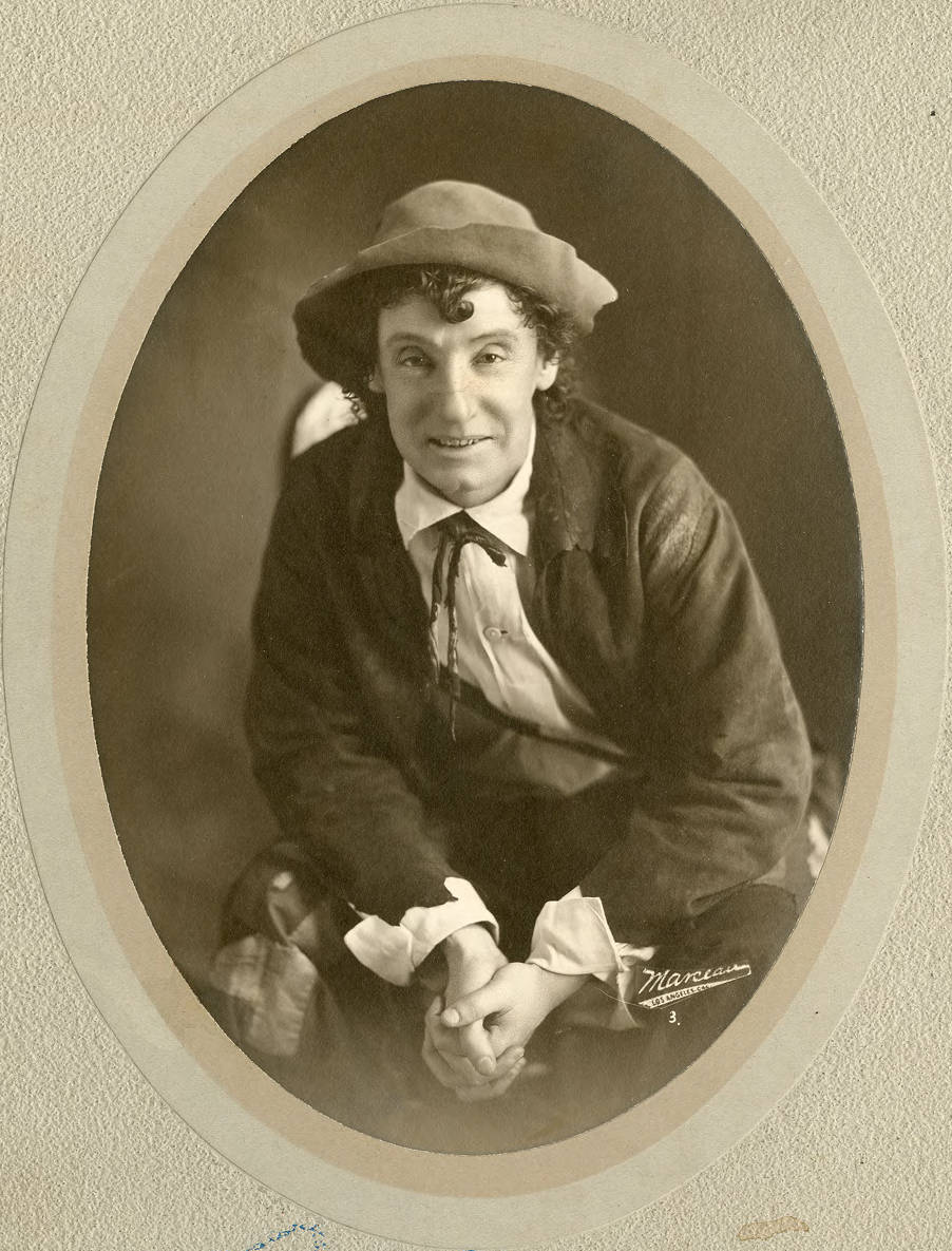 Thomas Jefferson, stage actor Subjects: actors, plays